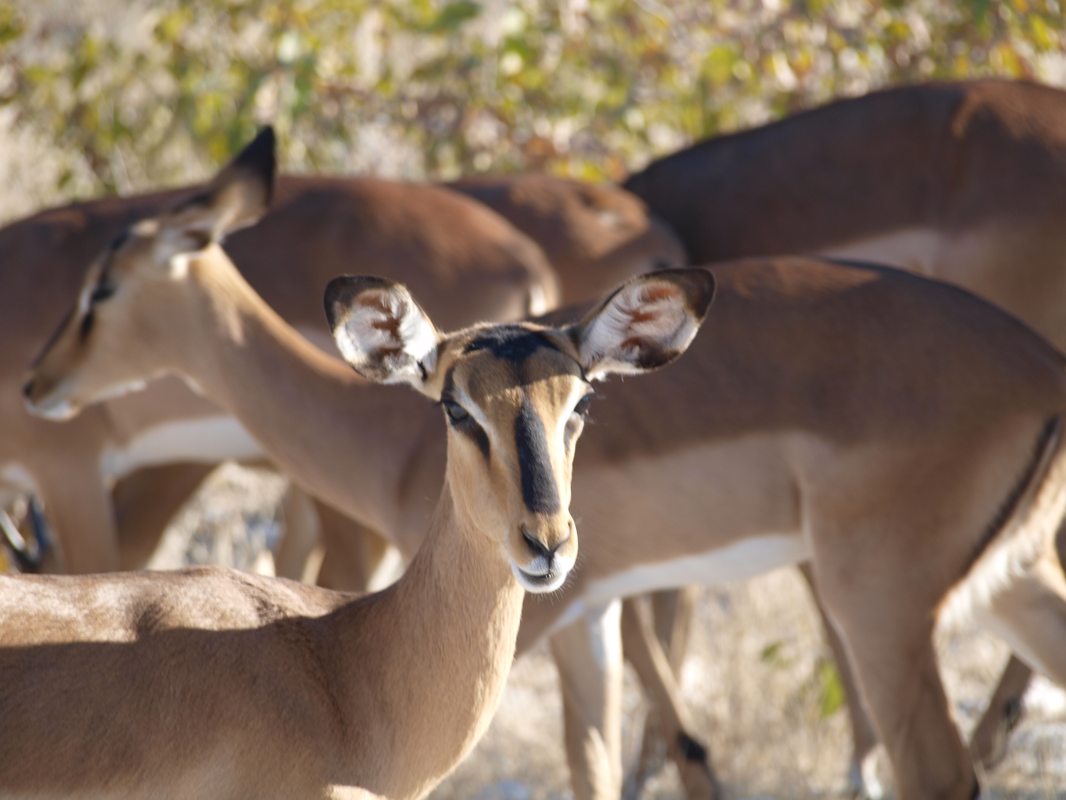 black-faced impala photografed in Etosha National Park, Namibia